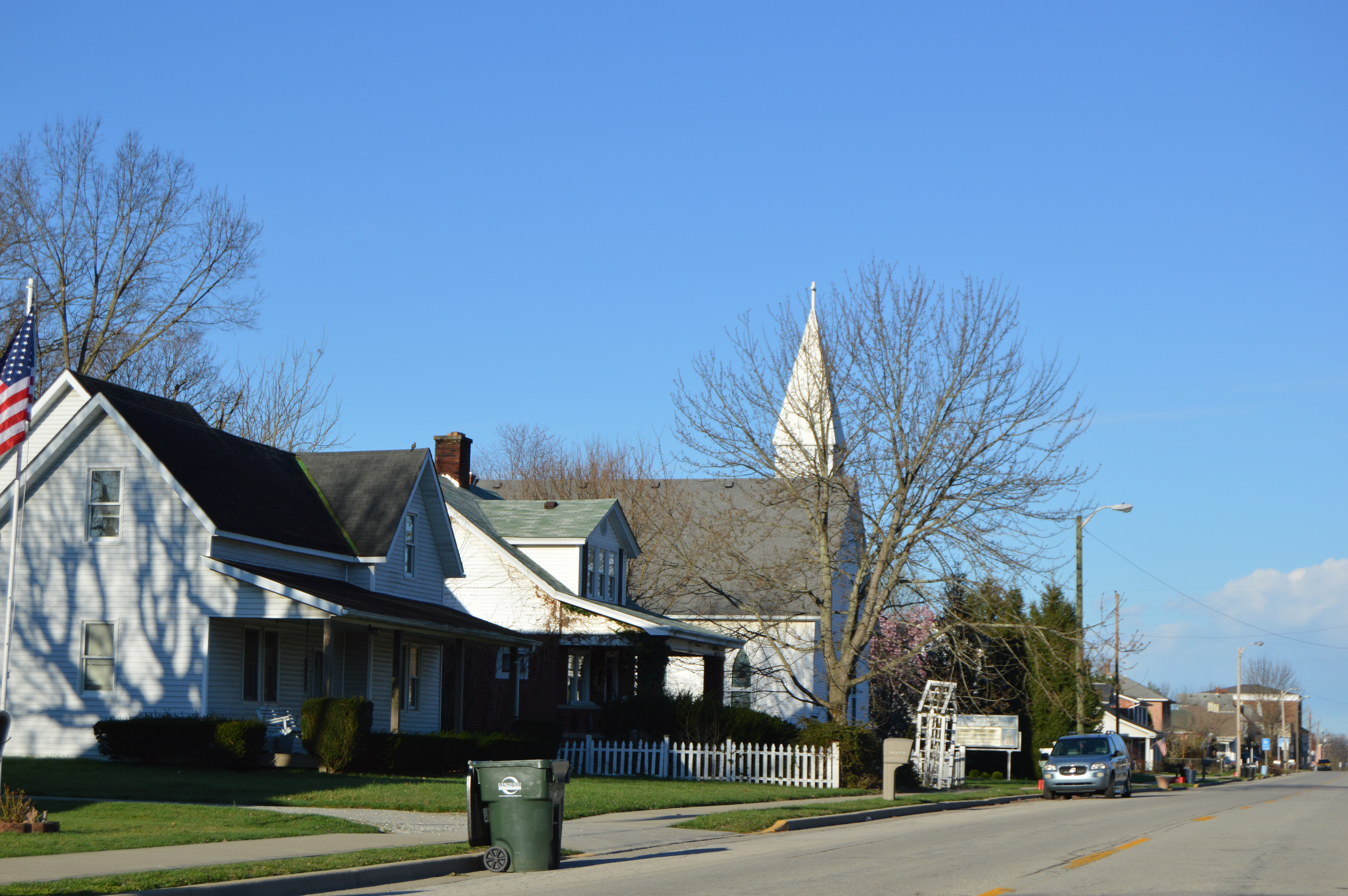 Houses and Hopewell Presbyterian Church, located on the southern side of North Street (State Road 62) near the Webster Street intersection in Dillsboro, Indiana, United States.